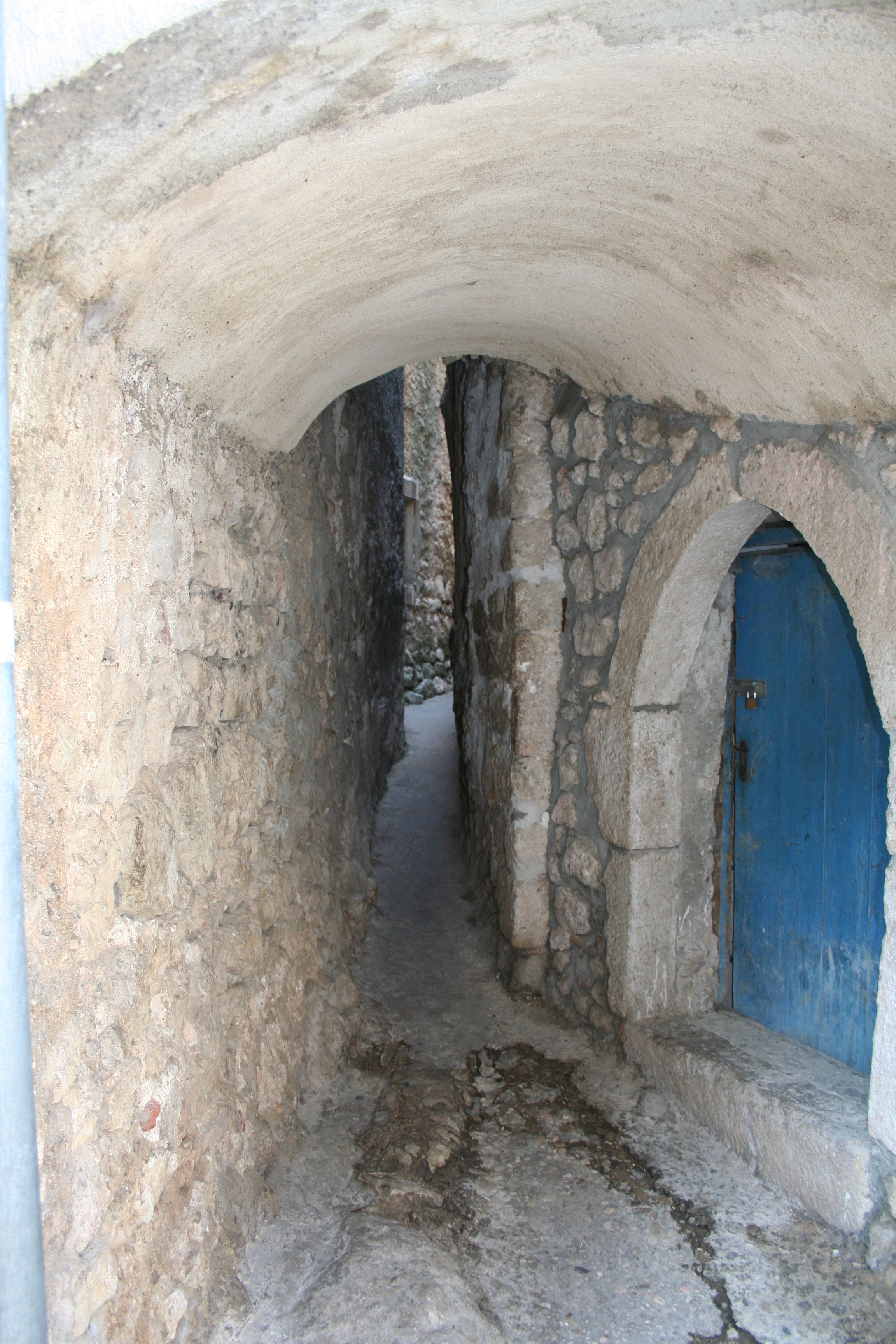 Klancic, a narrow alley (ca. 40 cm) at Vrbnik, Island of Krk, Croatia